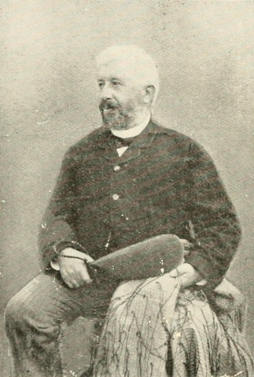 Black and white photo of Thomas Morland Hocken (1836 - 1910).